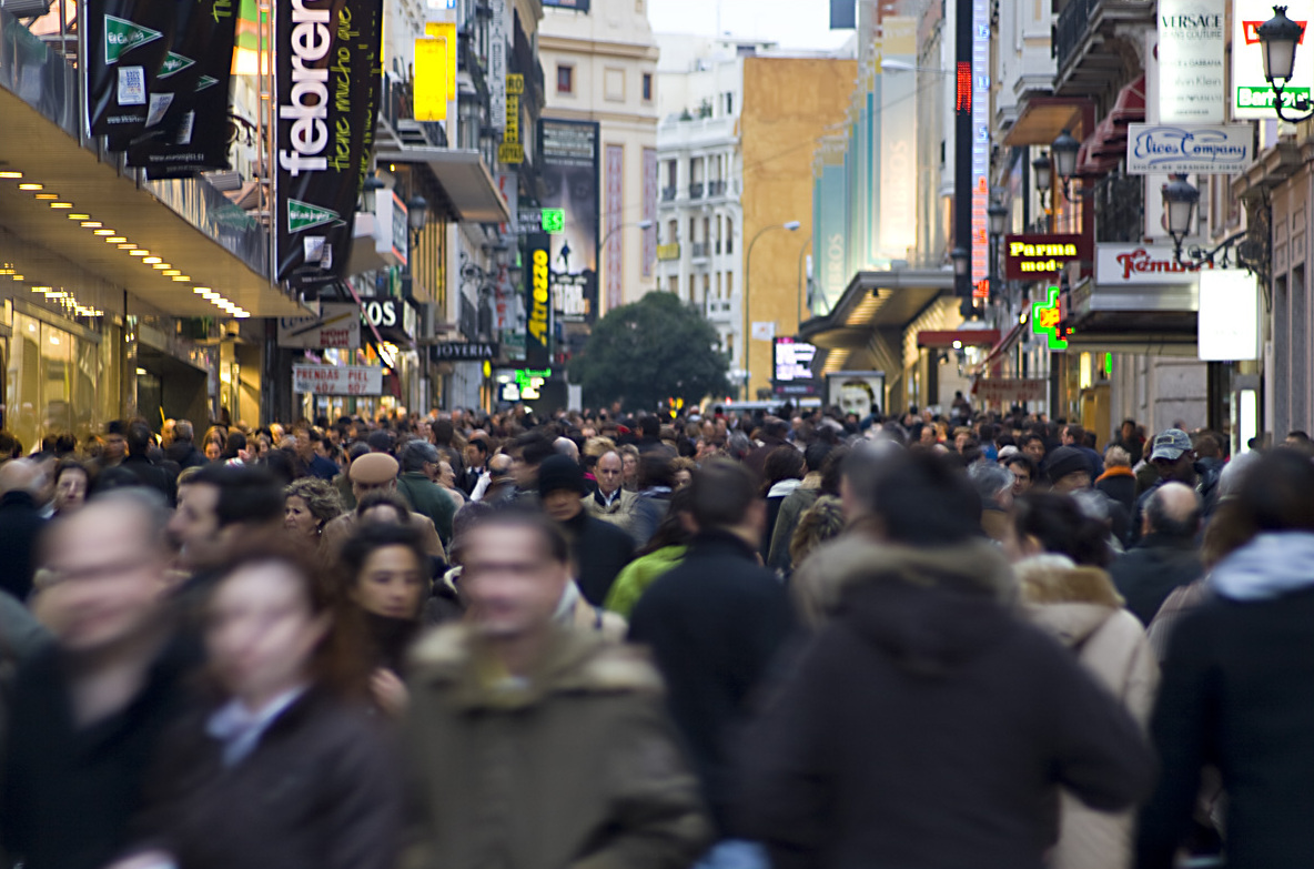 Calle de Preciados (street) in Madrid (Spain).